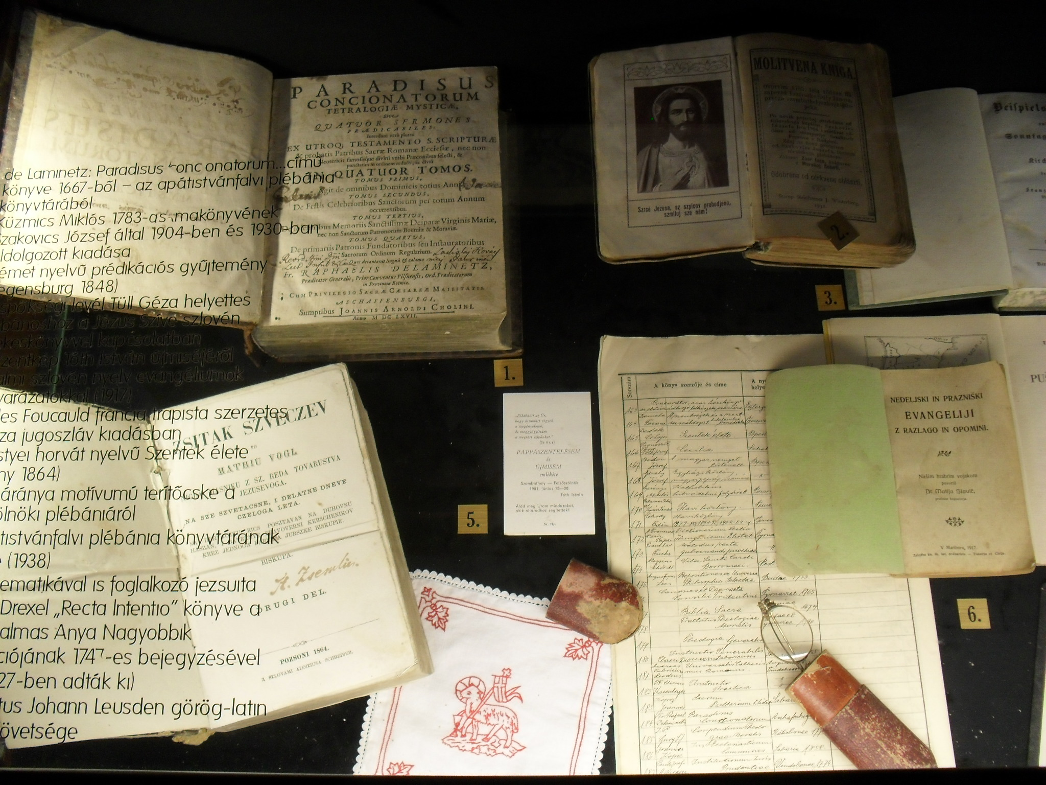 The collection of János Kühár in Felsőszölnök: Prekmurian (prekmurščina), Slovene, Latin and Burgenland Croatian books, including the Molitvena Kniga